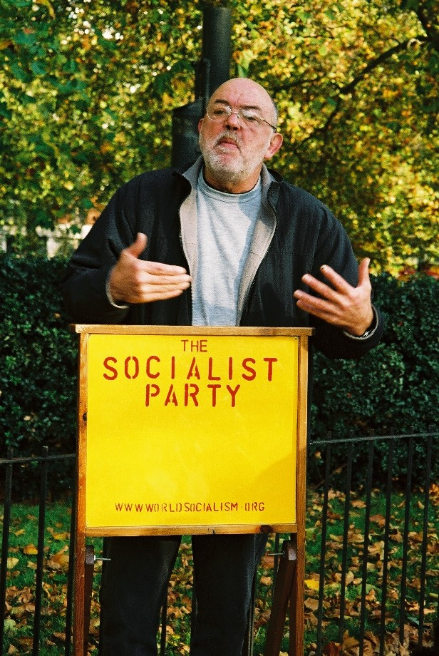 Danny Lambert of the Socialist Party of Great Britain addresses passers-by on Sunday, 31 October 2004 at Speakers' Corner, Hyde Park, London, England.